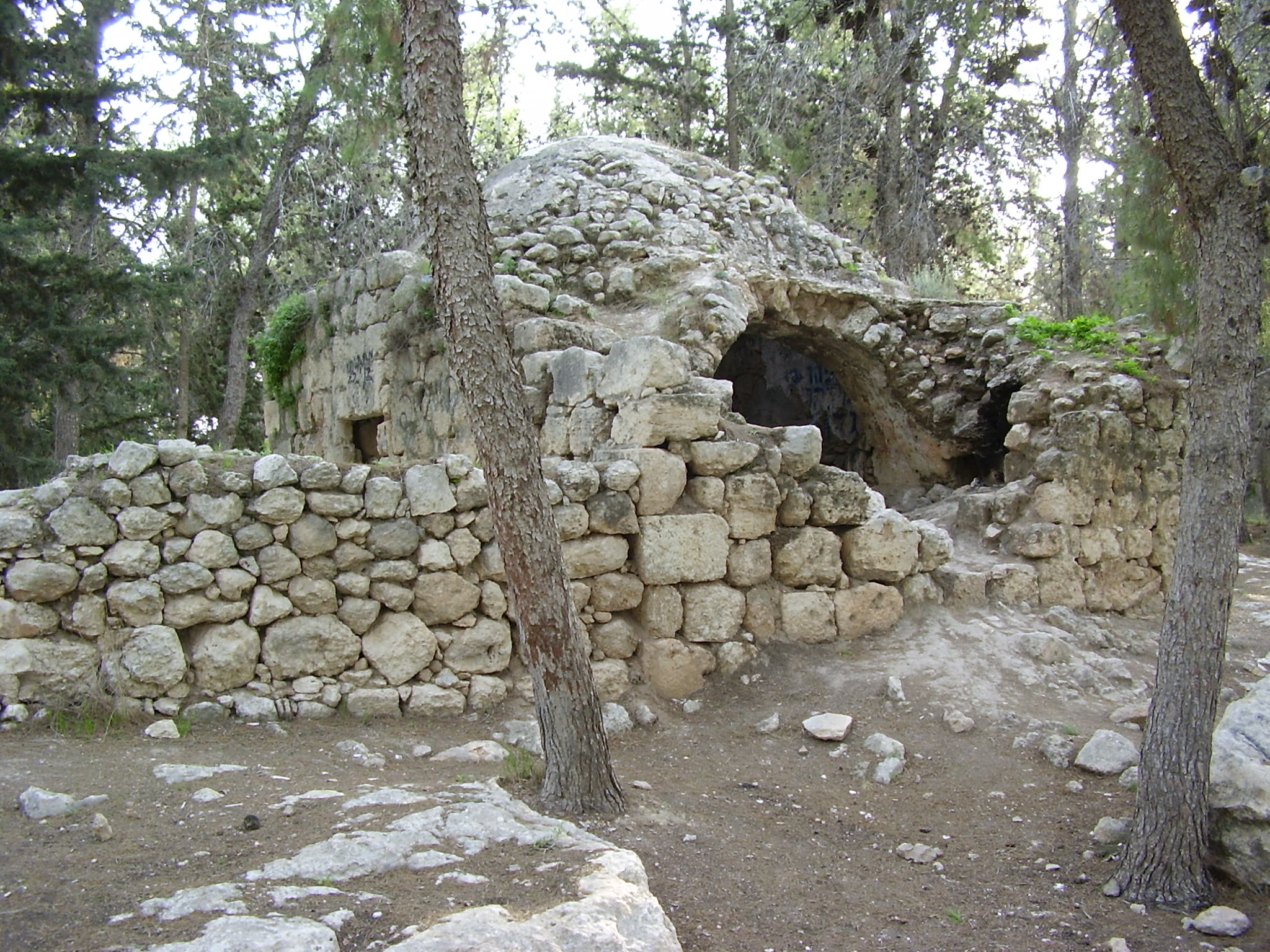 \"hagardi ruin\" in ben-shemen forest